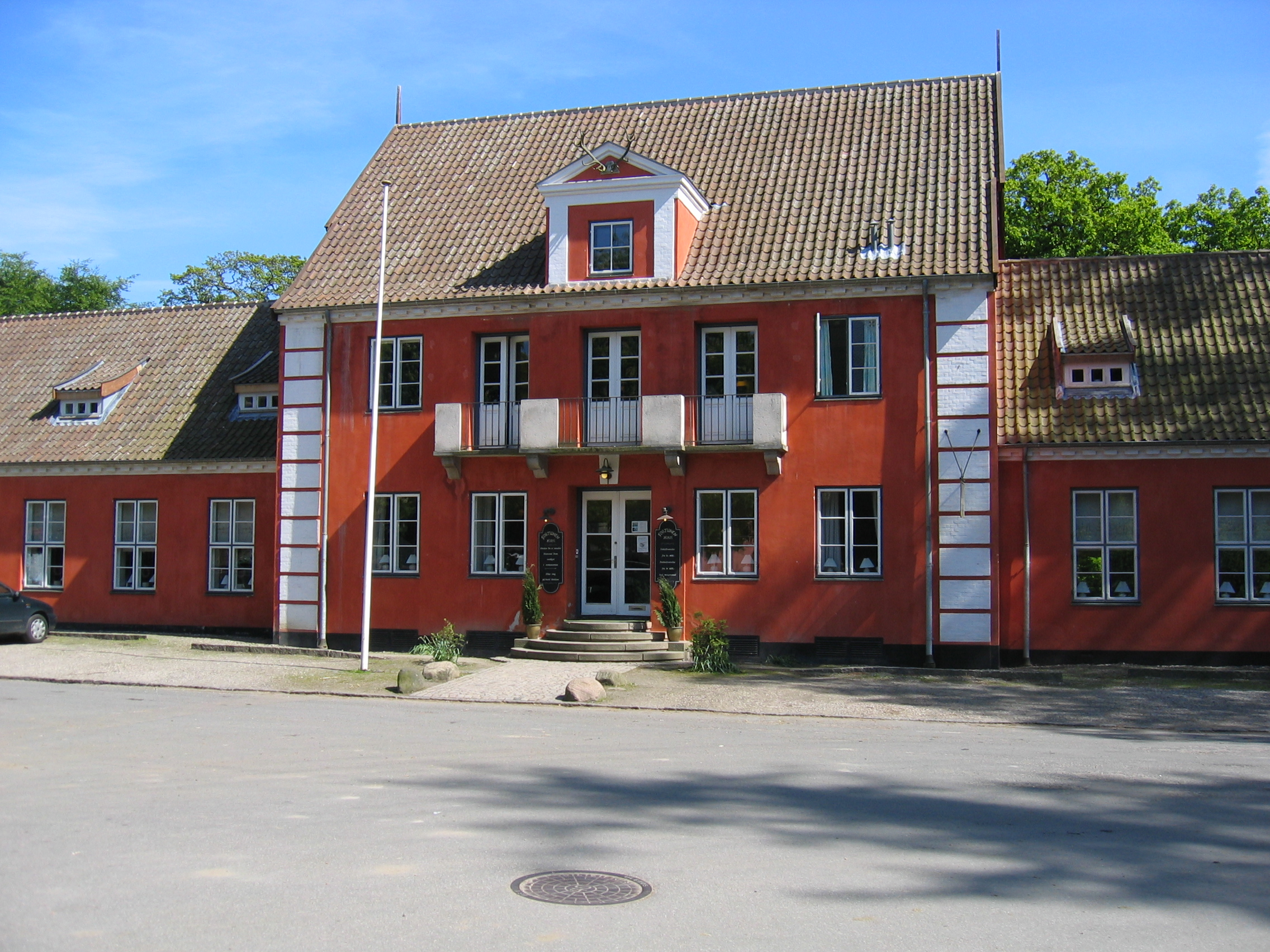 Fortunen, Jægersborg Deer park, Denmark